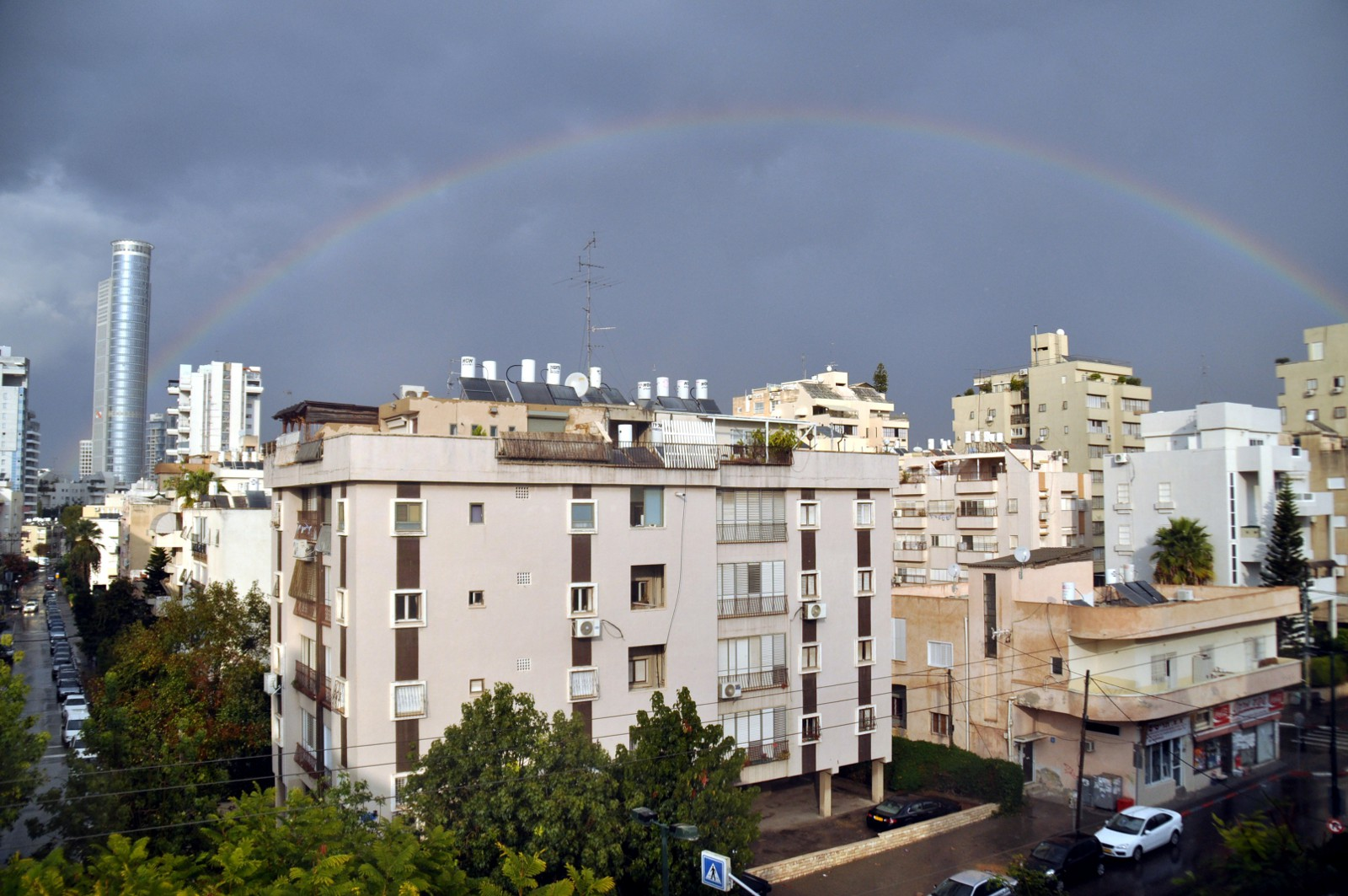 Rainbow over the neighborhood of Nahalat Yitzhak in Tel Aviv. Seen in the picture are Emek Bracha Street and Ziman Street. The Moshe Aviv Tower in Ramat Gan is in the background.